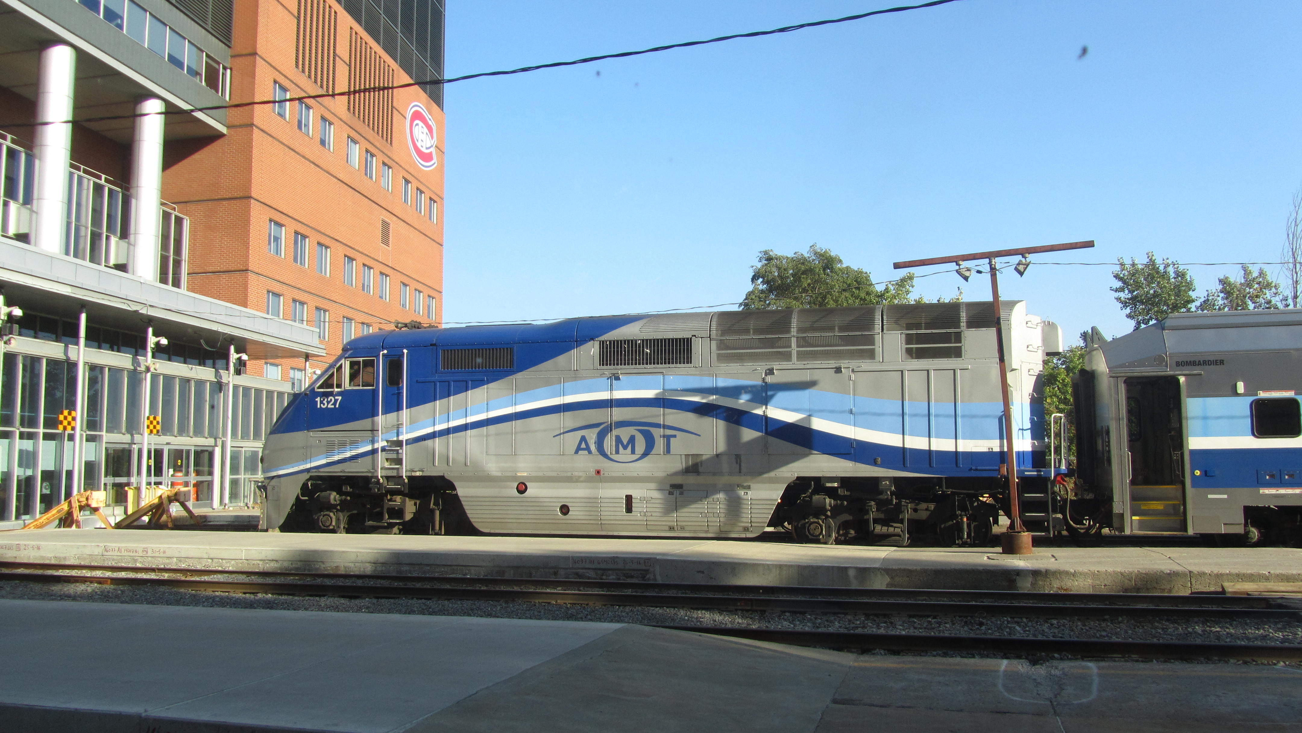 This was taken at the train terminal Lucien-L'Allier. A F59PHI is parked on track 4.